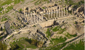 The Classical centre at Pella, Jordan Byzantine church ruins (columns). (D.C. Thomas, January 2005)